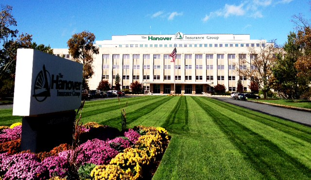 This is the main office building of Hanover Insurance Group in Worcester, Massachusetts, USA